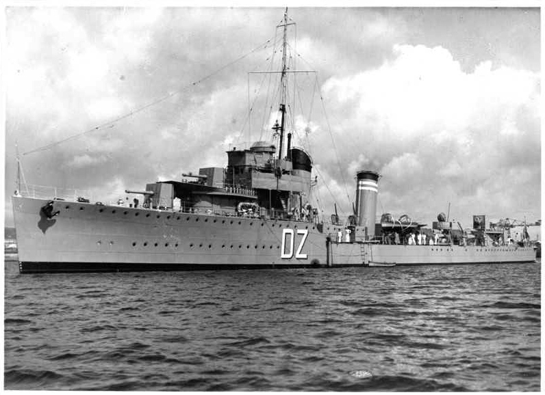 Destroyer José Luís Díez (DZ), Churruca I class (1926).